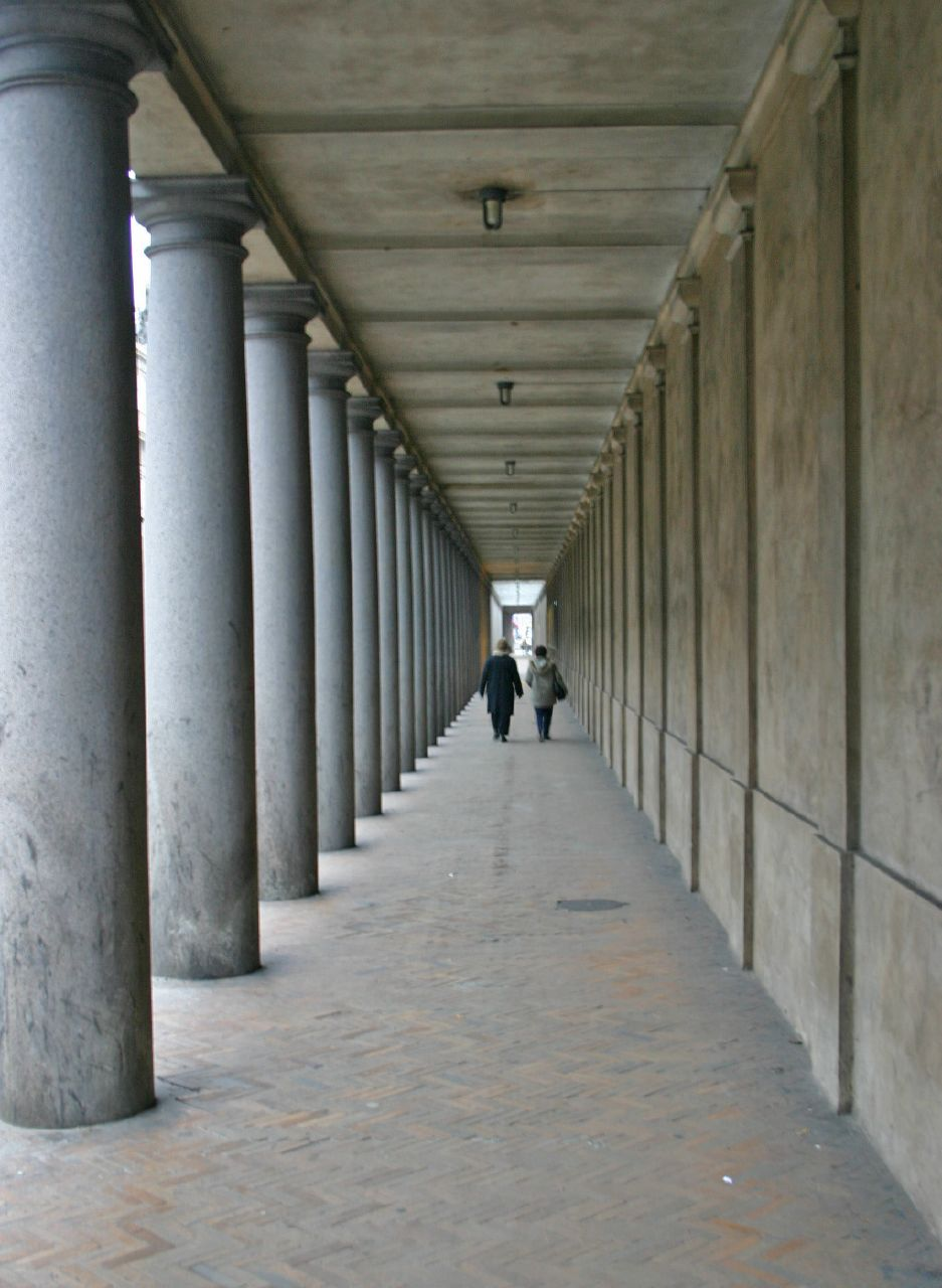 The National Museum's colonade along Stormgade in Copenhagen, Denmark